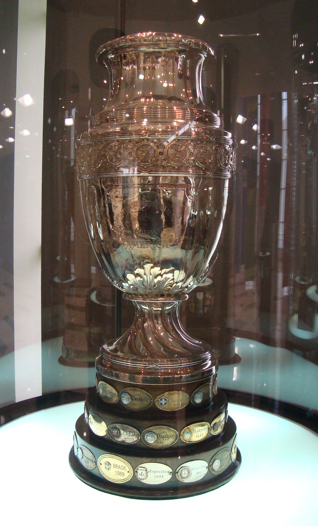 The Copa América trophy, given to the winner of the main national team competition in the Americas. The picture was taken at the Conmebol Museum in Luque, Paraguay.